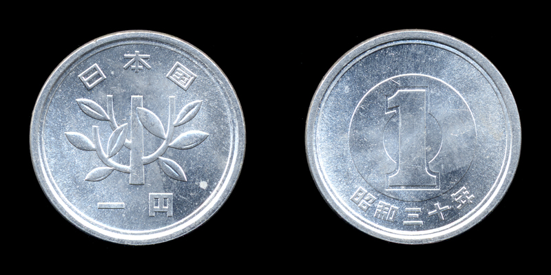 1yen-S30(current coin)